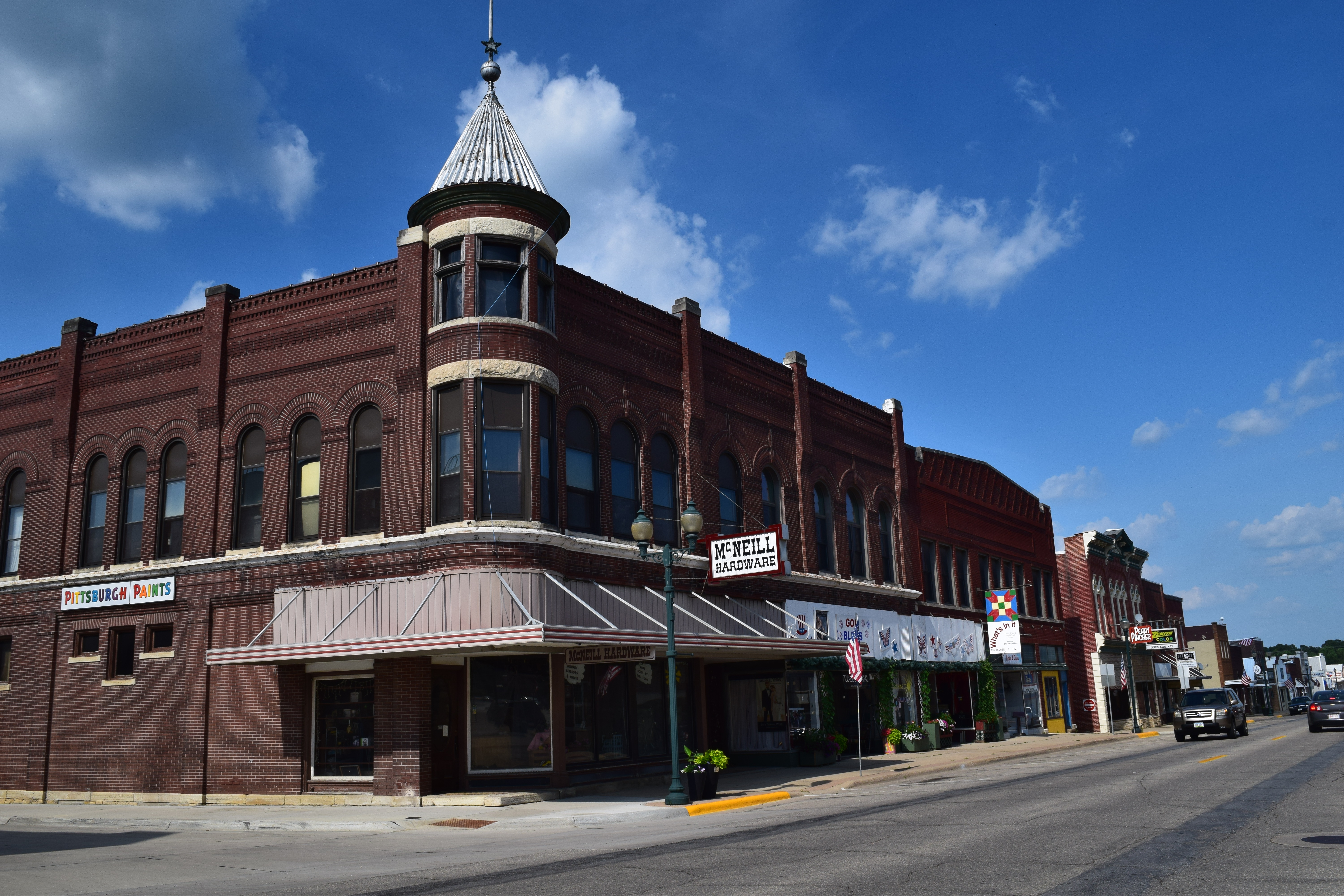 Looking east on Iowa Highway 38 in downtown Monticello, Iowa.